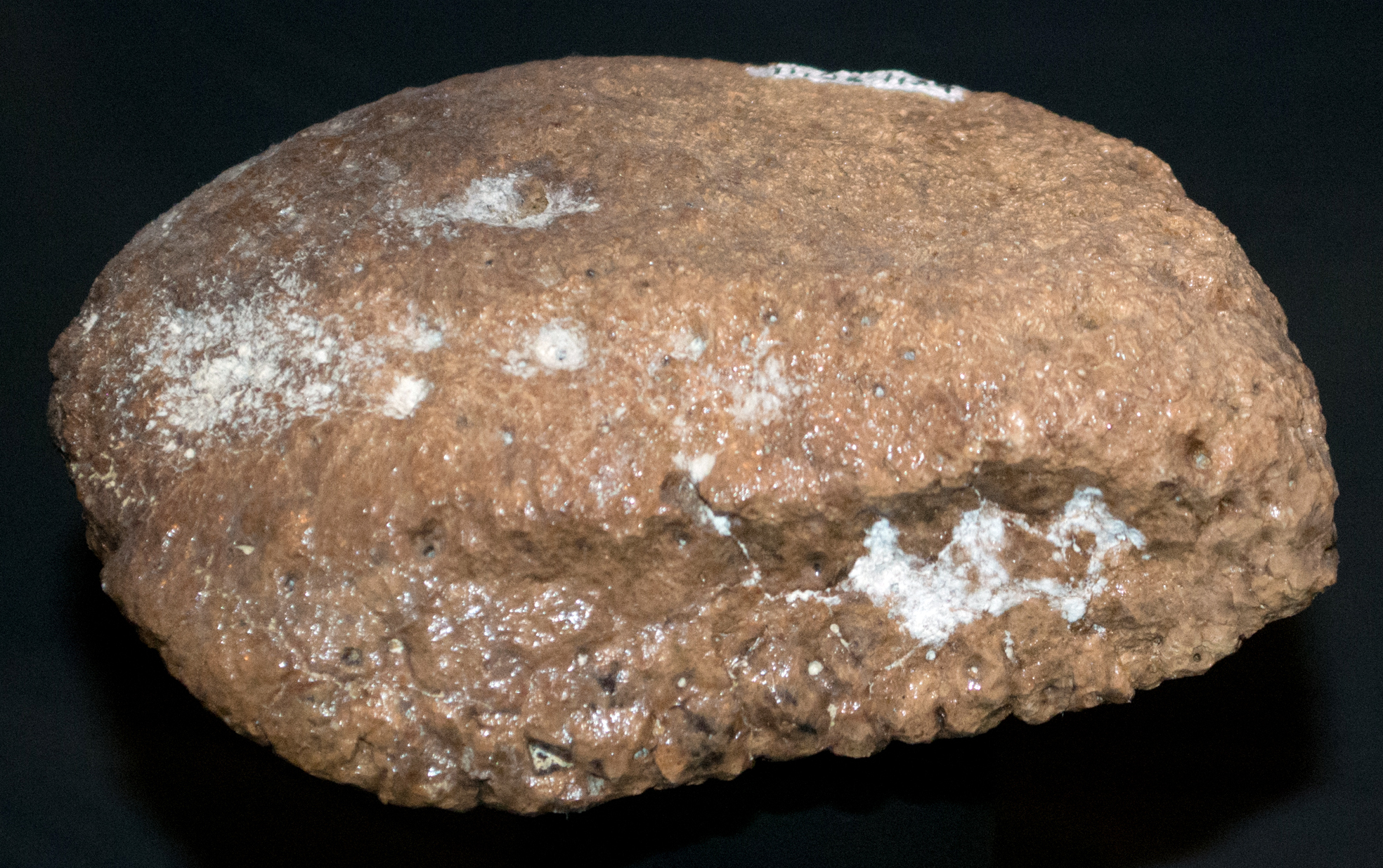 Ankylosaurus magniventris armor plate - Museum of the Rockies.